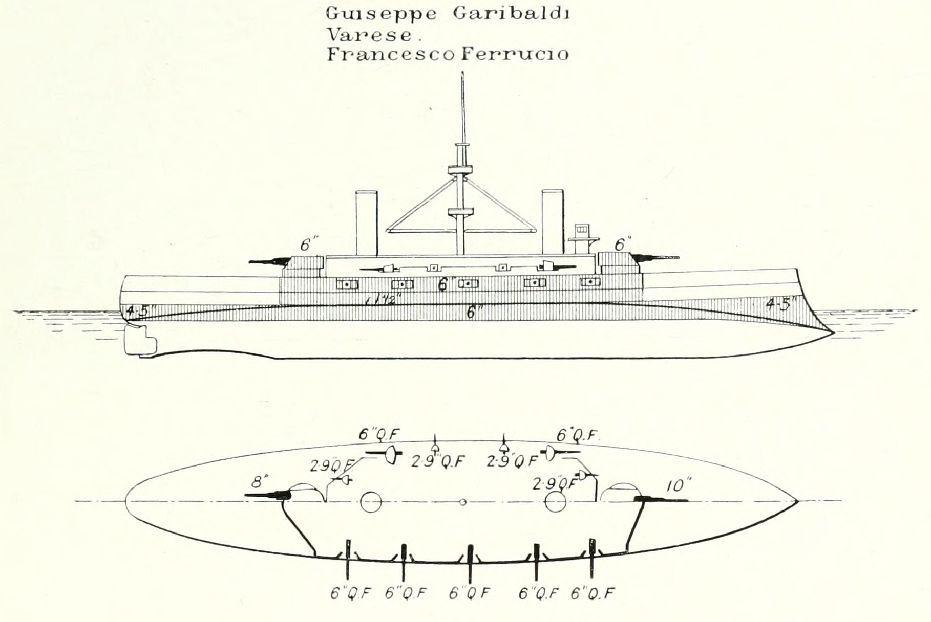 Sketch of the Italian armoured cruisers Garibaldi class.